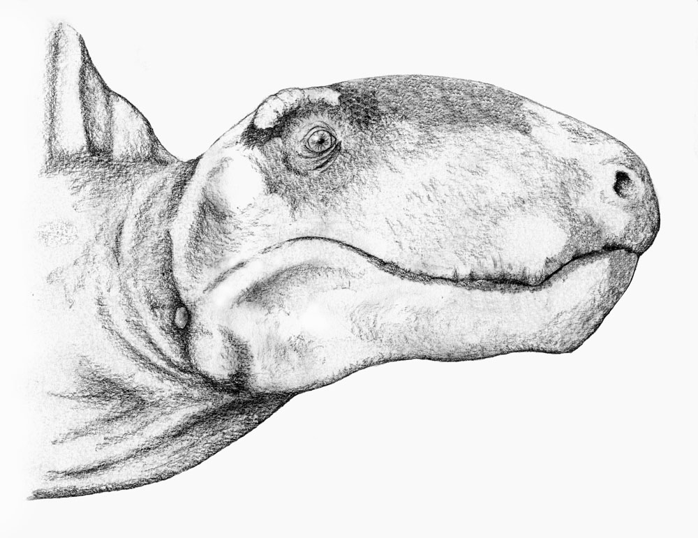 A head of Middele Permian sphenacodontid Dimetrodon limbatis, drawing based on the skull from the book Review of the Pelycosauria (by Cope)